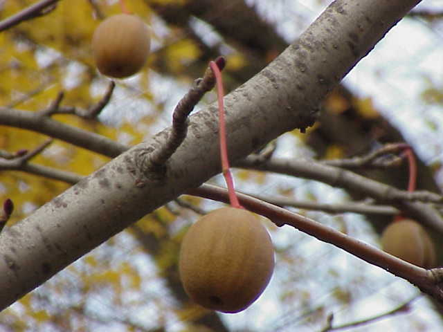 Species: Davidia involucrata var vilmoriniana Family: Davidiaceae Image No. 1